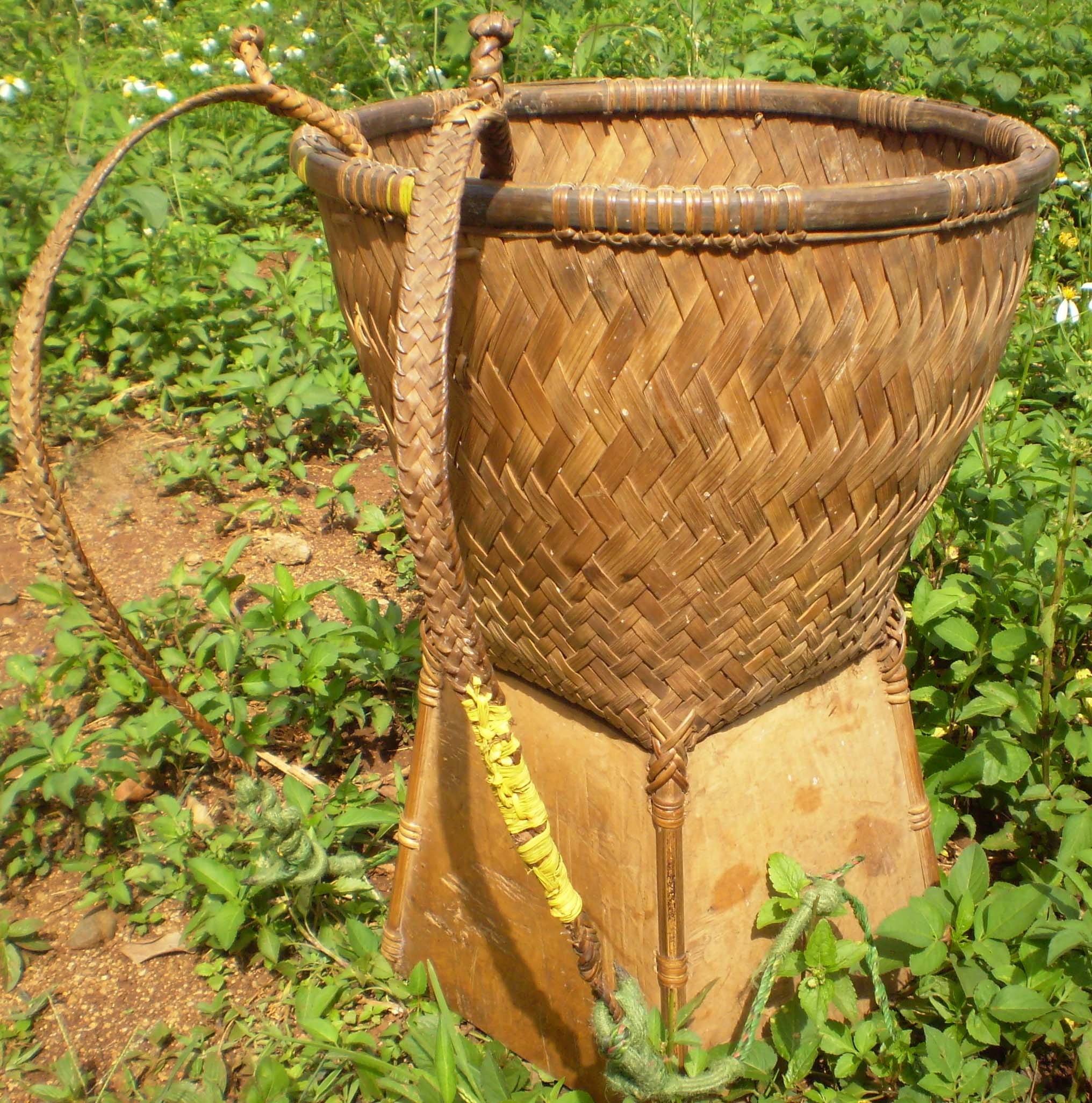 The papoose of people Ede, Vietnam